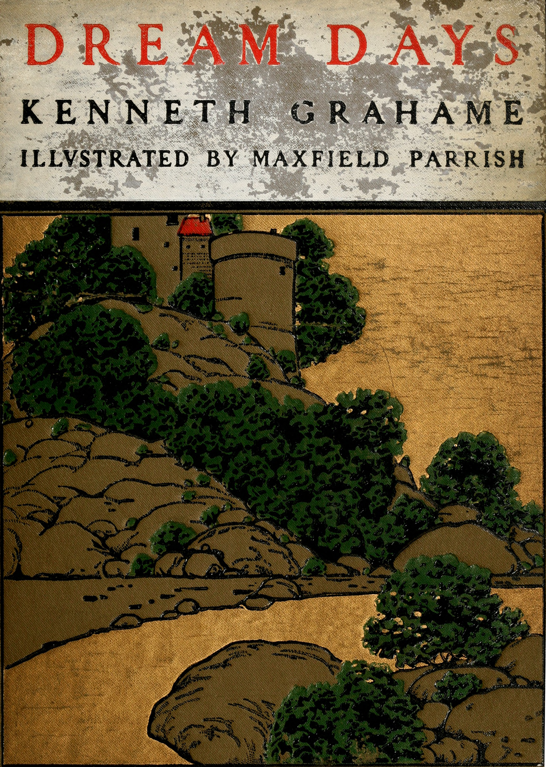 Illustration from Dream Days. London: John Lane; New York: The Bodley Head. 1902 Conversion from jp2 to jpg, rotation, crop